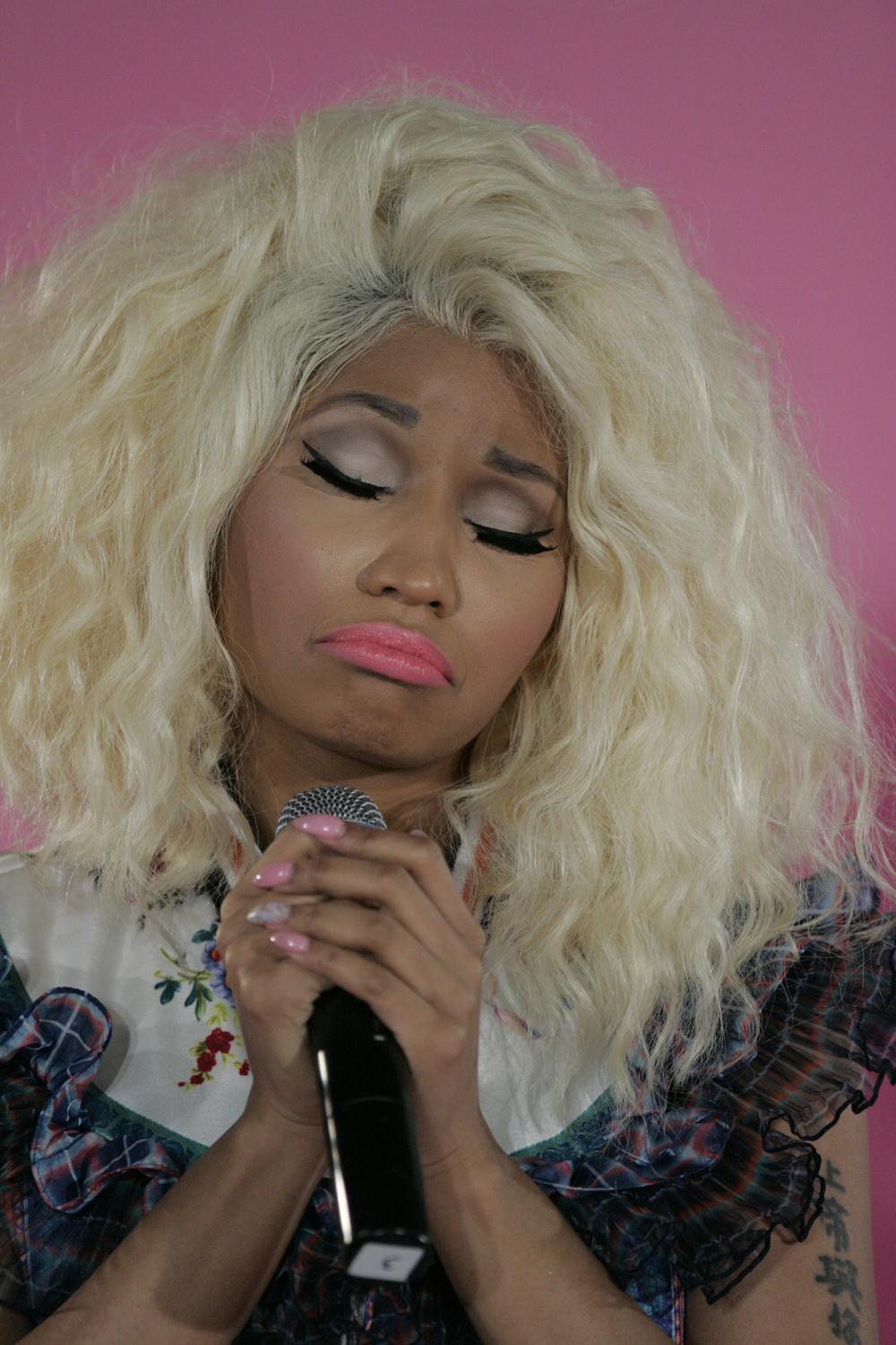 Nicki Minaj Launches Pink Friday Perfume 2012 - Sydney, Australia.